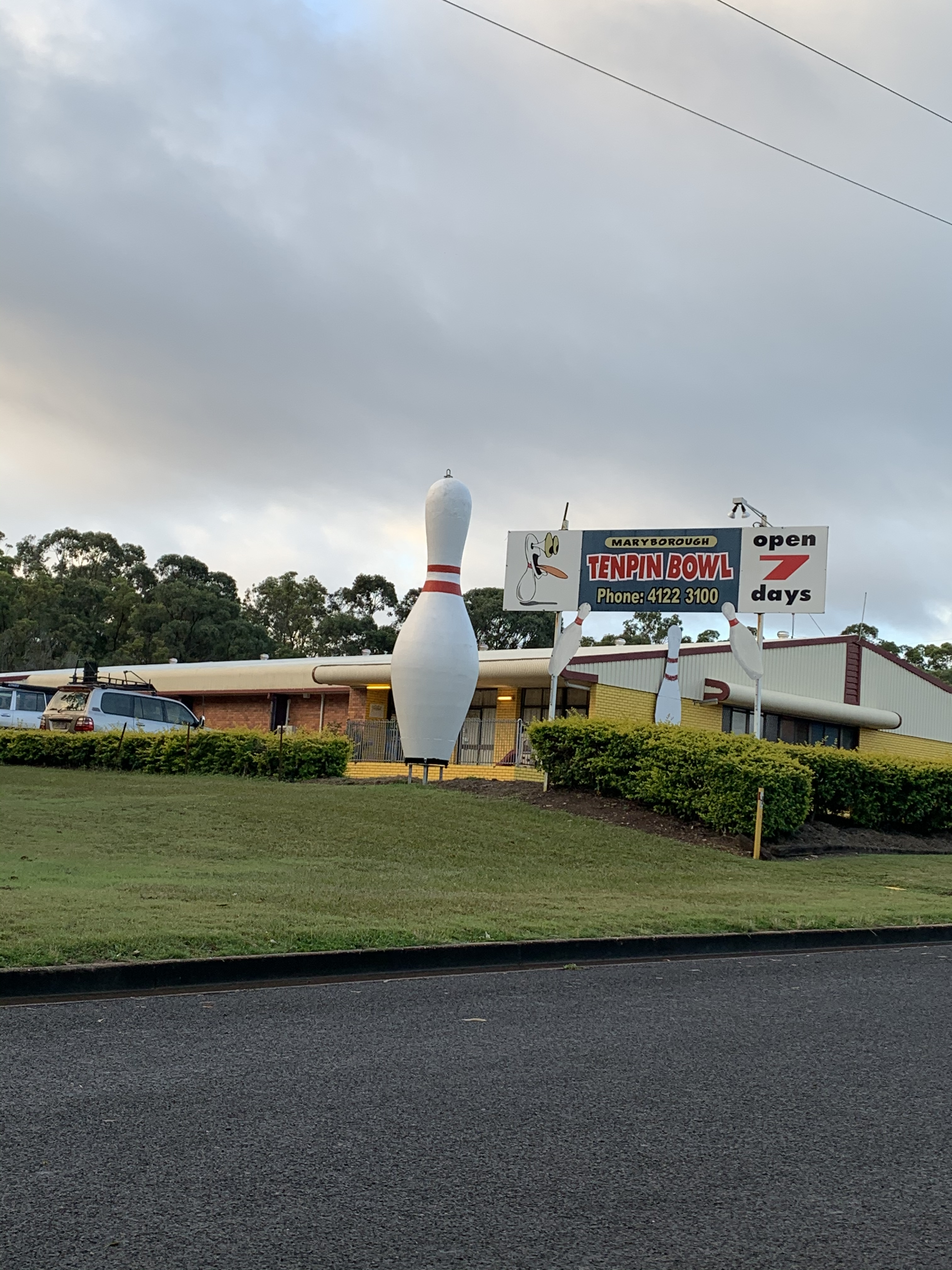 The Big Bowling Pin in Maryborough, Queensland